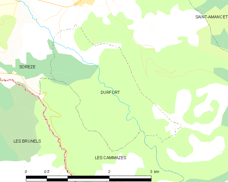 Map of French municipality Durfort